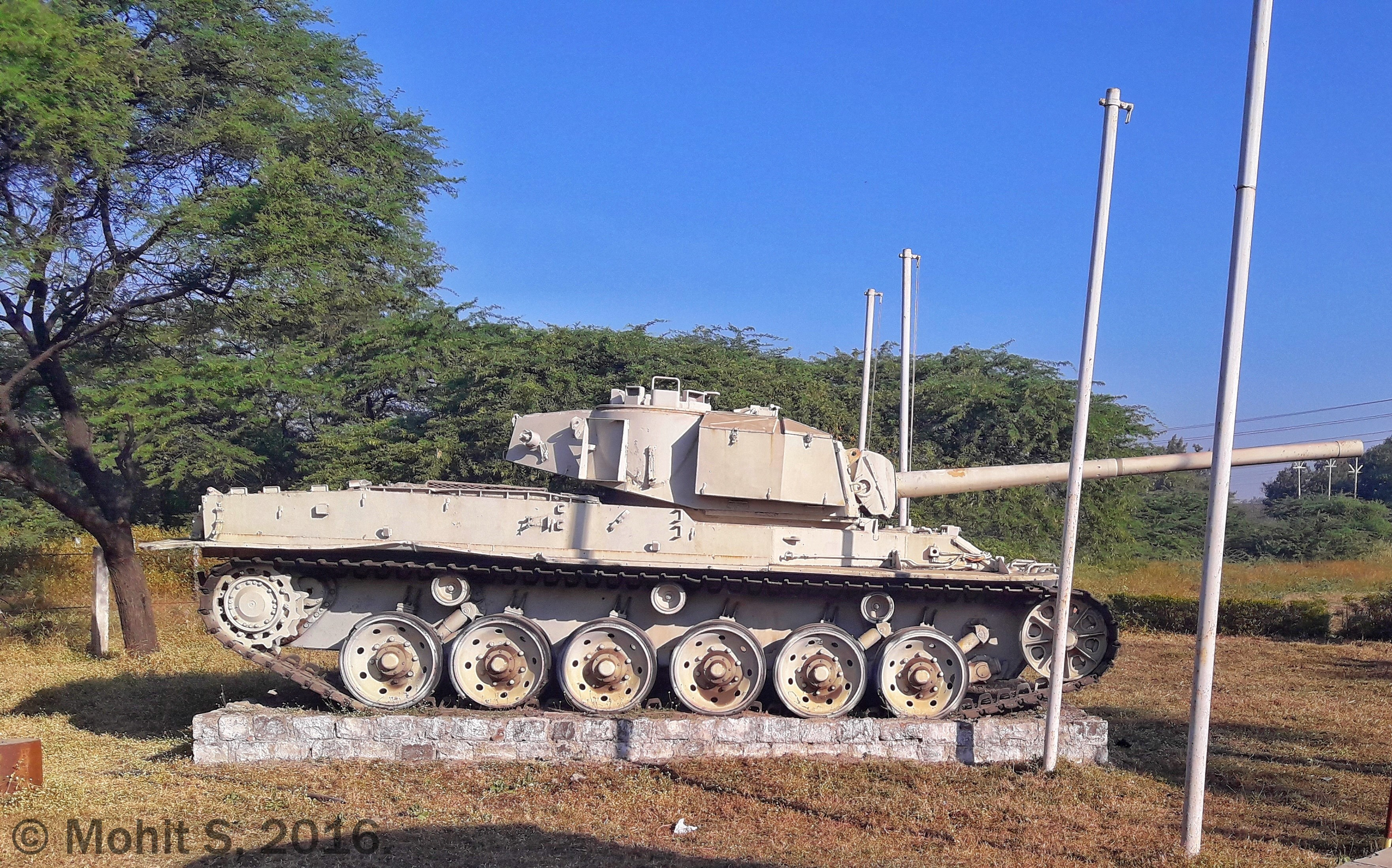 Indian Army Vijayanta tank. (The picture is been cropped and edited) -More informationℹ about the Asia's only historic tank museum can be found here and here Location: Cavalry Tank museum, Maharashtra, India. Clicked from Samsung J7-6.